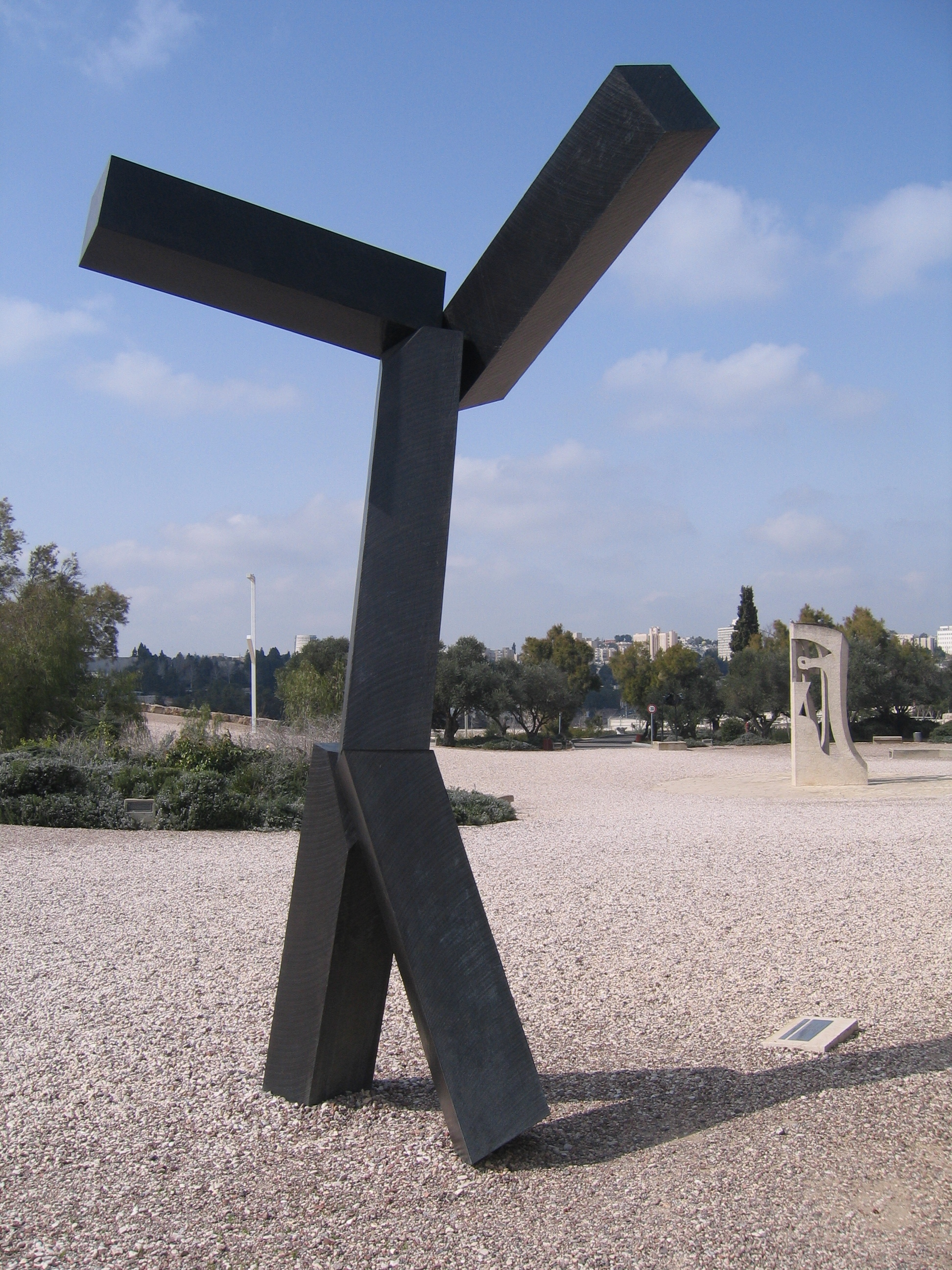 Untiteled (1996) by Joel Shapiro.